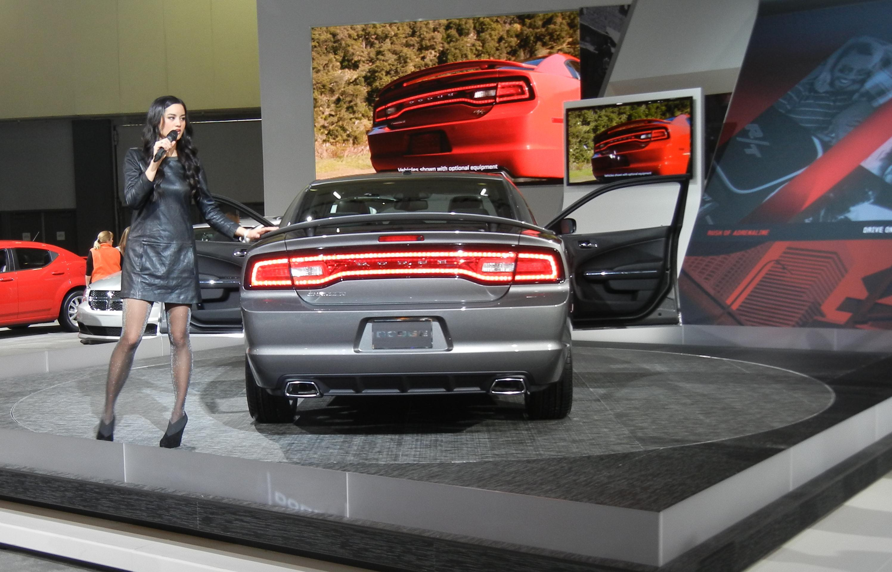 Model describing automobile feature on display at auto show